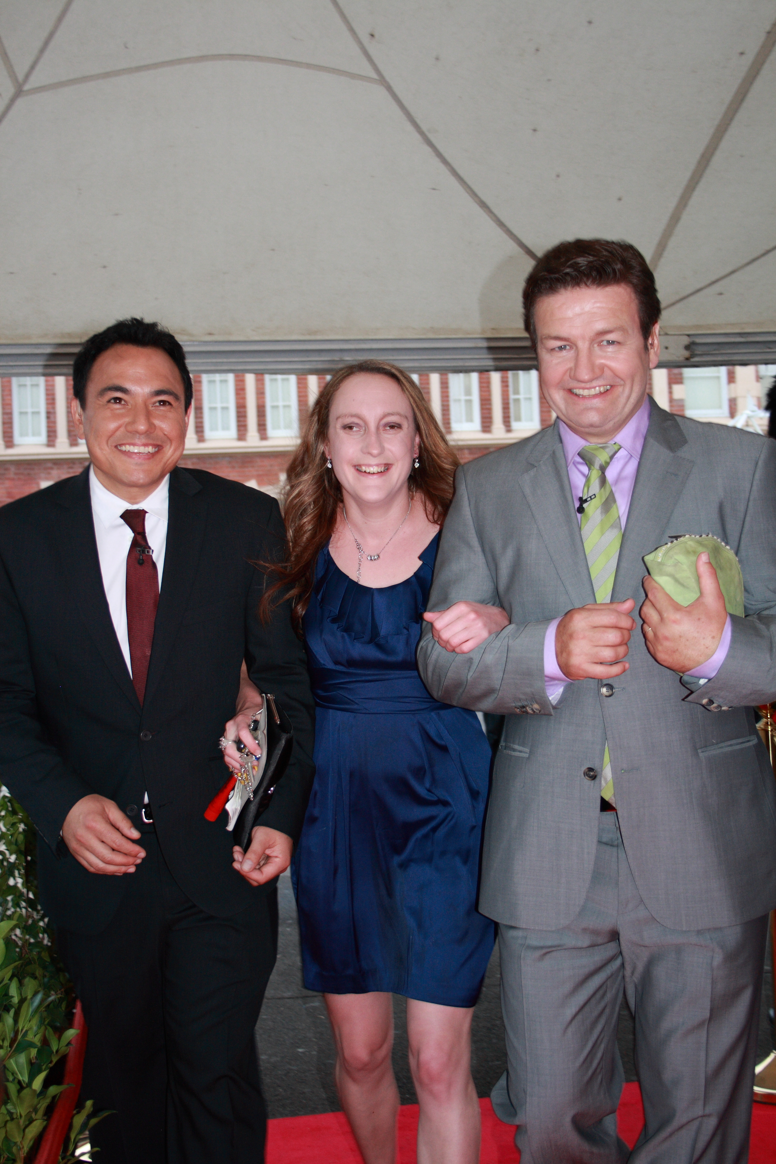 Australian Paralympian of the Year 2012 ceremony at the Hordern Pavilion, Sydney, Australia.